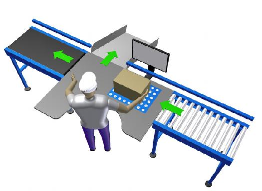 Workstation in a handling environment More informations on